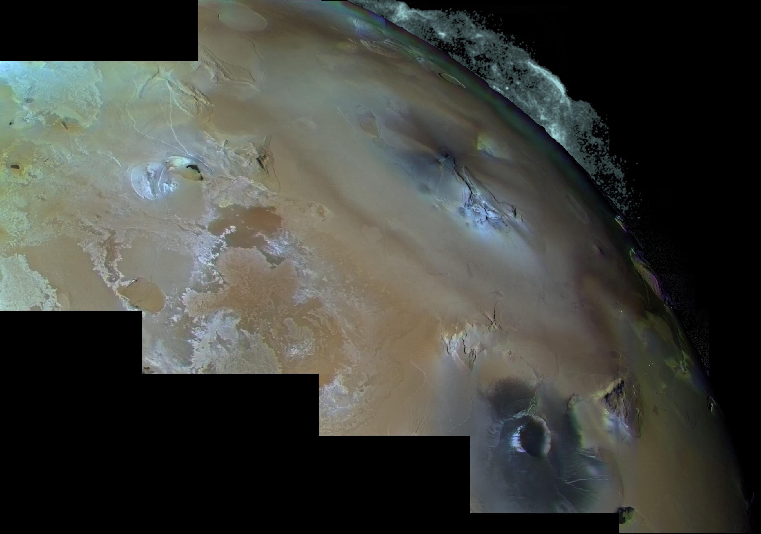 The eruption of Pele on Jupiter's moon Io. The volcanic plume rises 300 kilometers above the surface in an umbrella-like shape. The plume fallout covers an area the size of Alaska. The vent is a dark spot just north of the triangular-shaped plateau (right center). To the left, the surface is covered by colorful lava flows rich in sulfur.